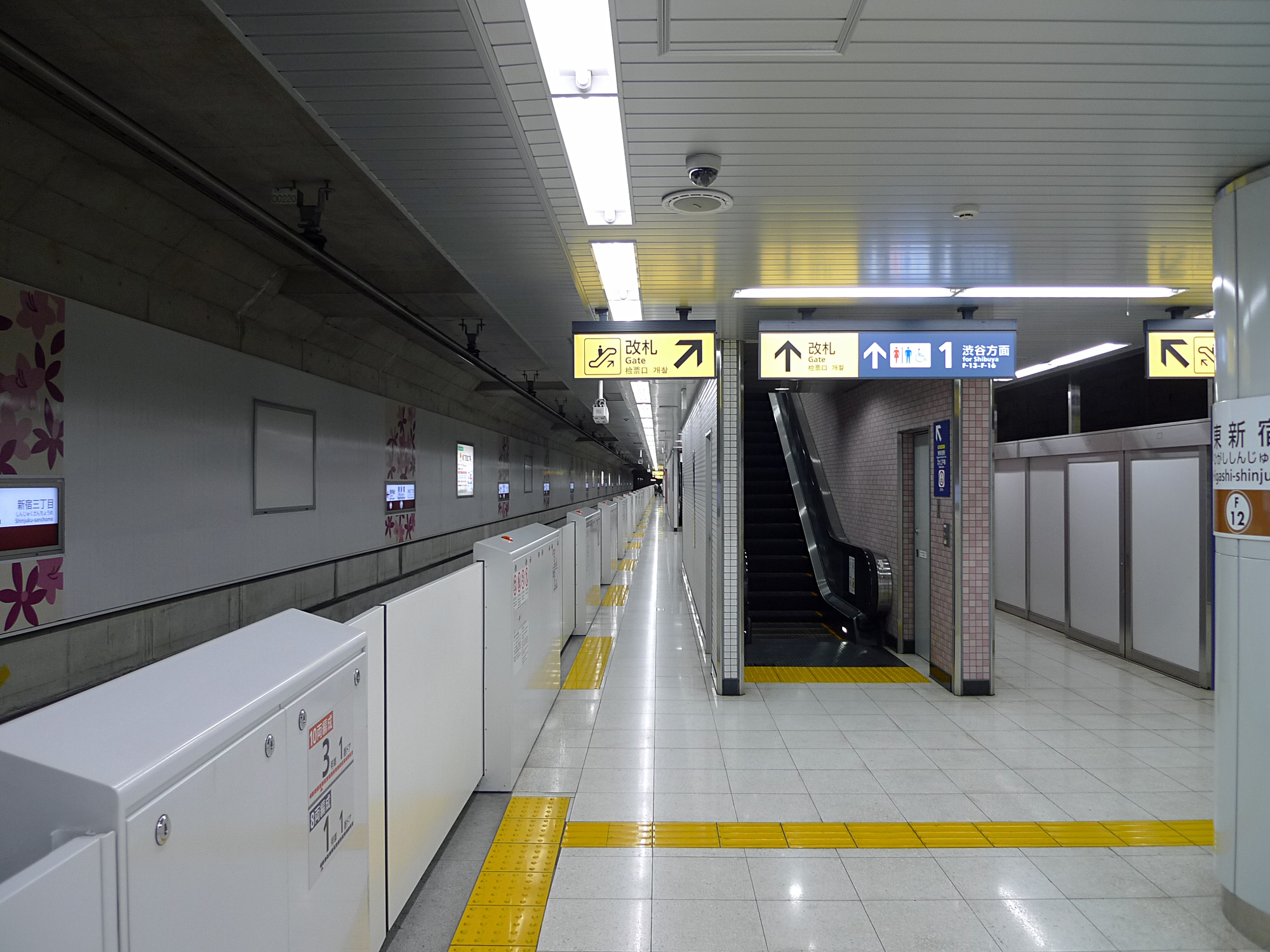 Tokyo Metro Fukutoshin Line platform 2 (Wakoshi-bound) at Higashi-shinjuku Station in Tokyo. Following the removal of the screen on the right, the left-hand track became platform 4 and the right-hand track became platform 3